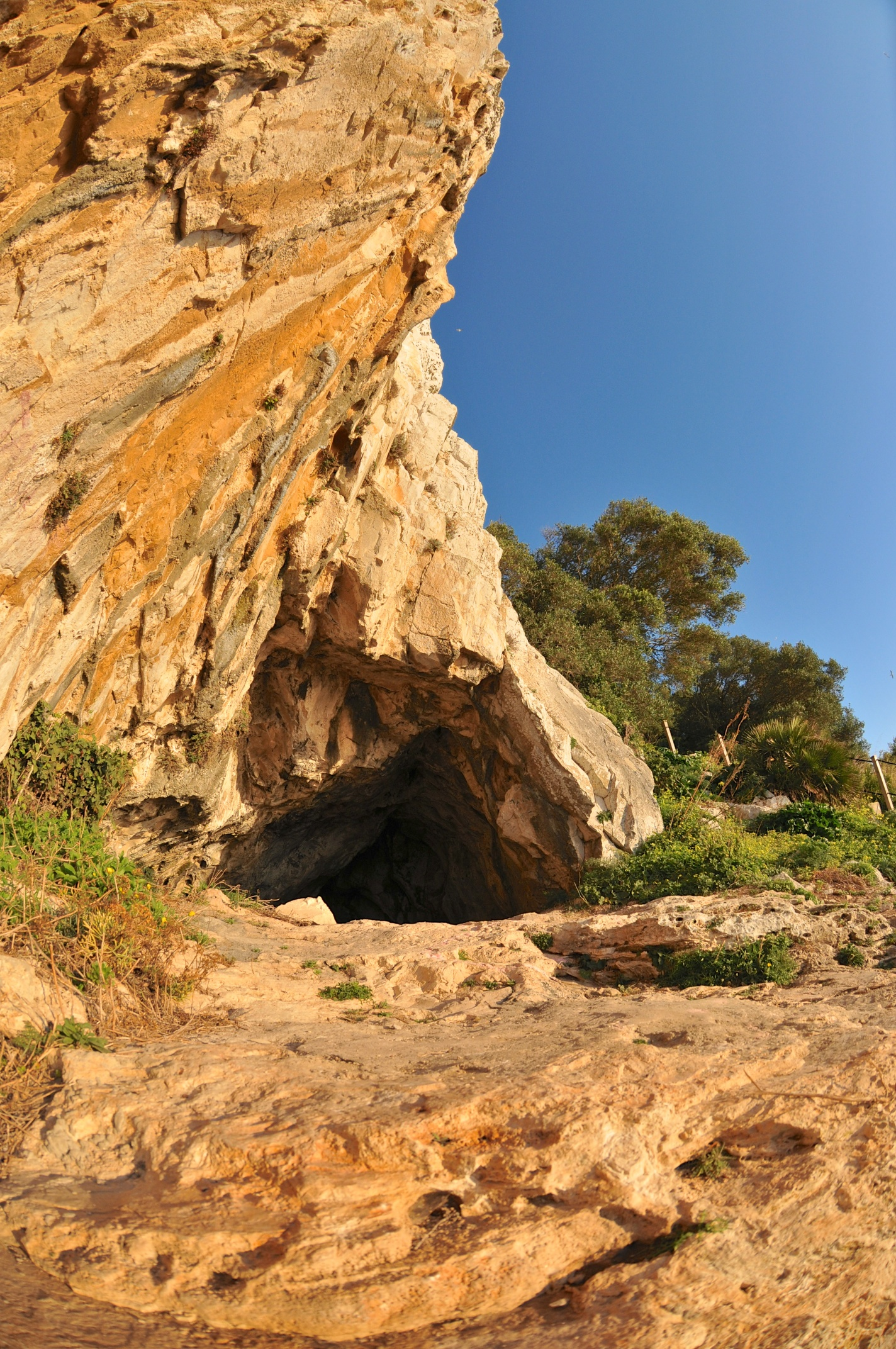 Goats Hair Caves on Gibraltar